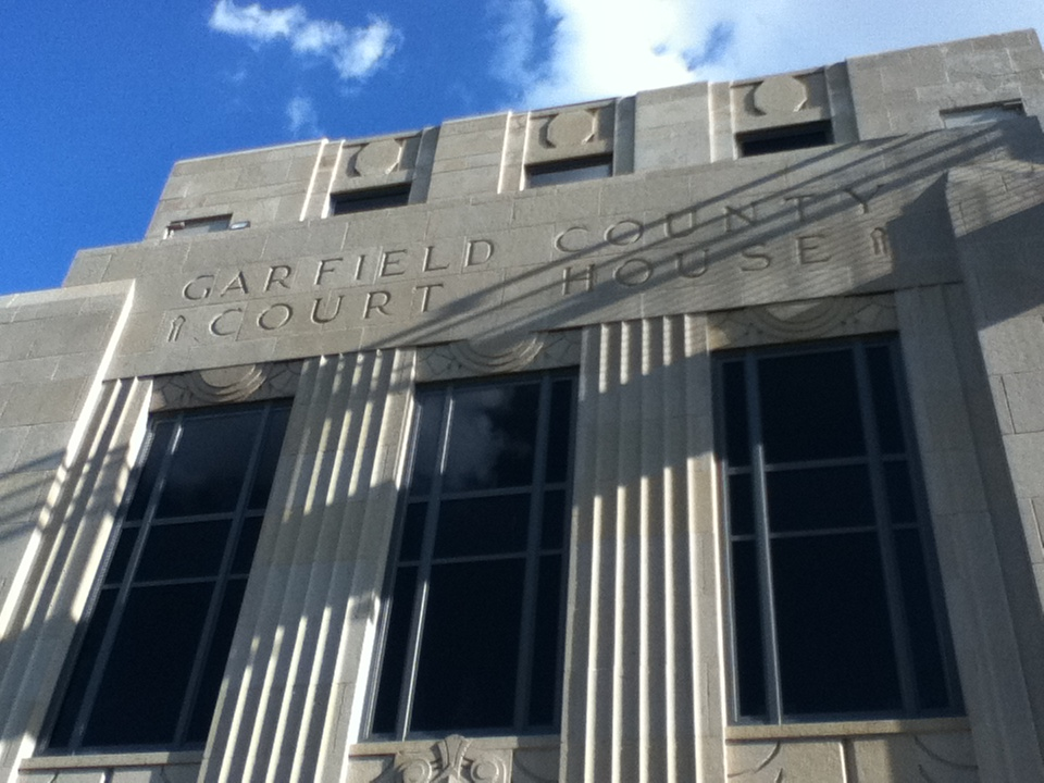 The front of the Garfield County Courthouse in Enid, Oklahoma.